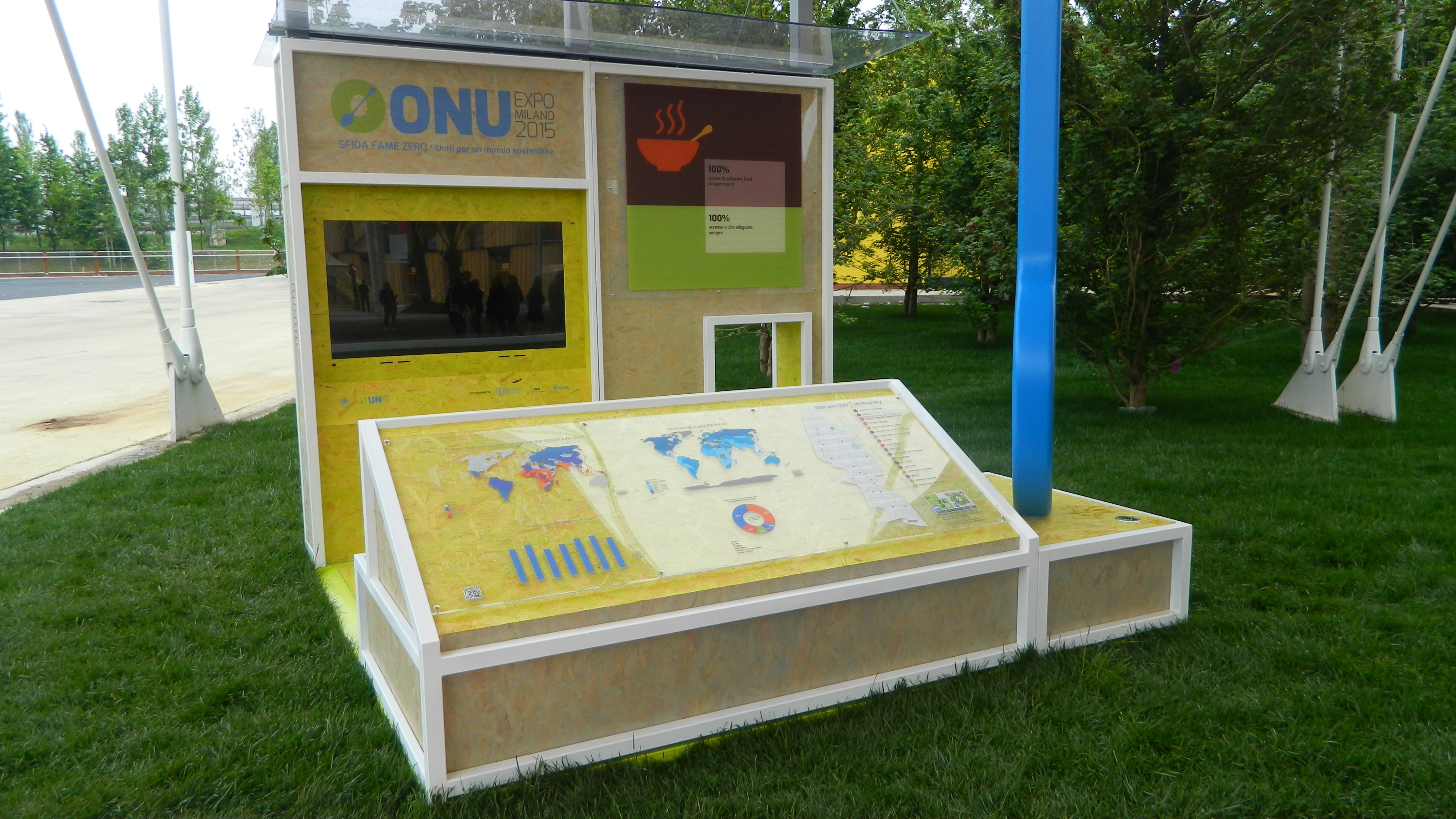 UN kiosk along the decumanus at Expo 2015 Milano